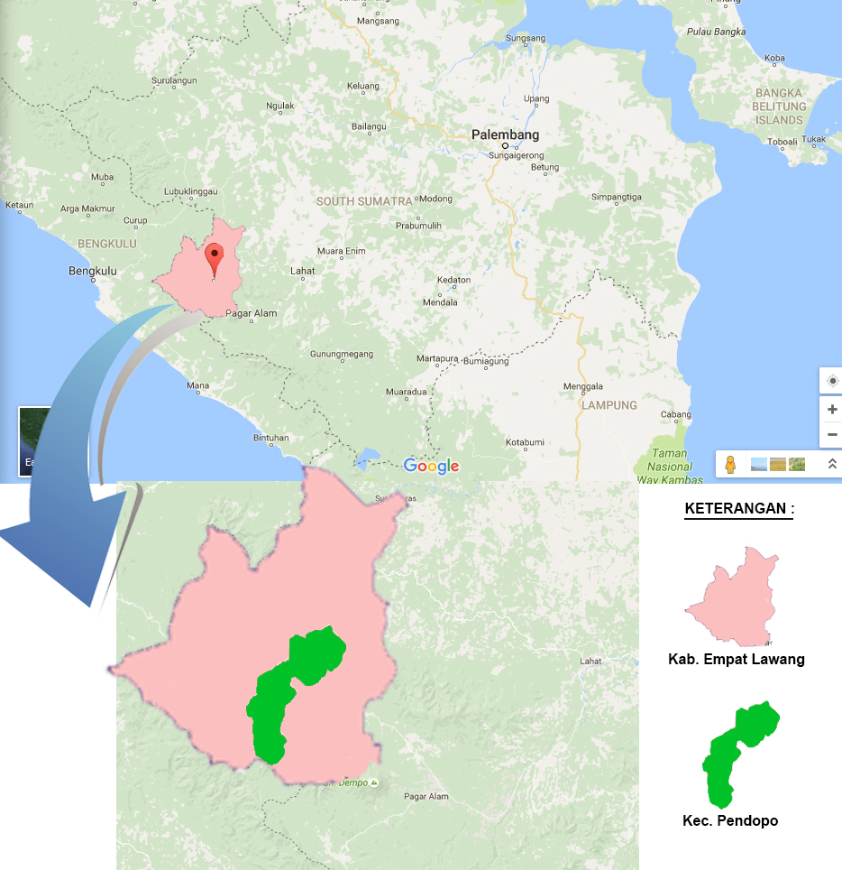 Lokasi Kec. Pendopo